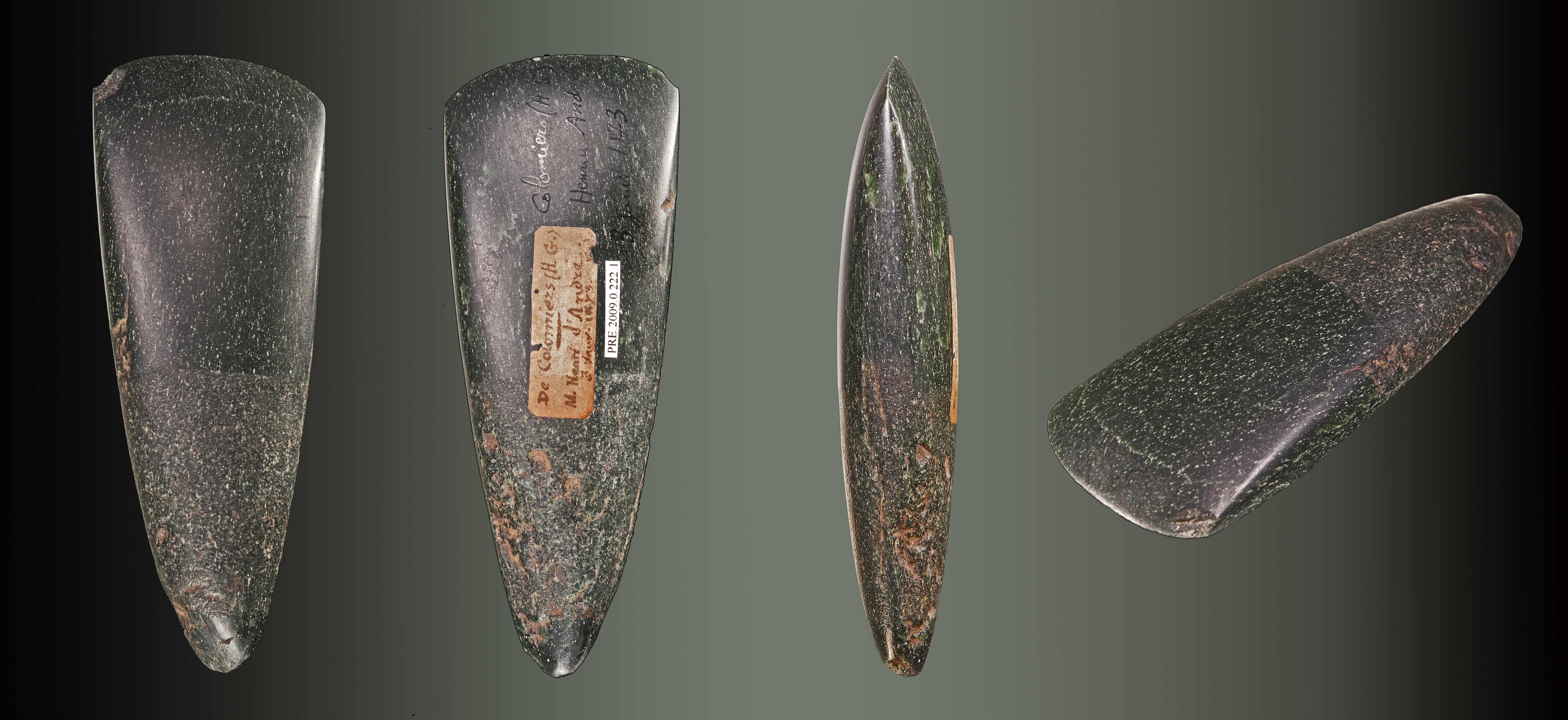 Different views of the same specimen.